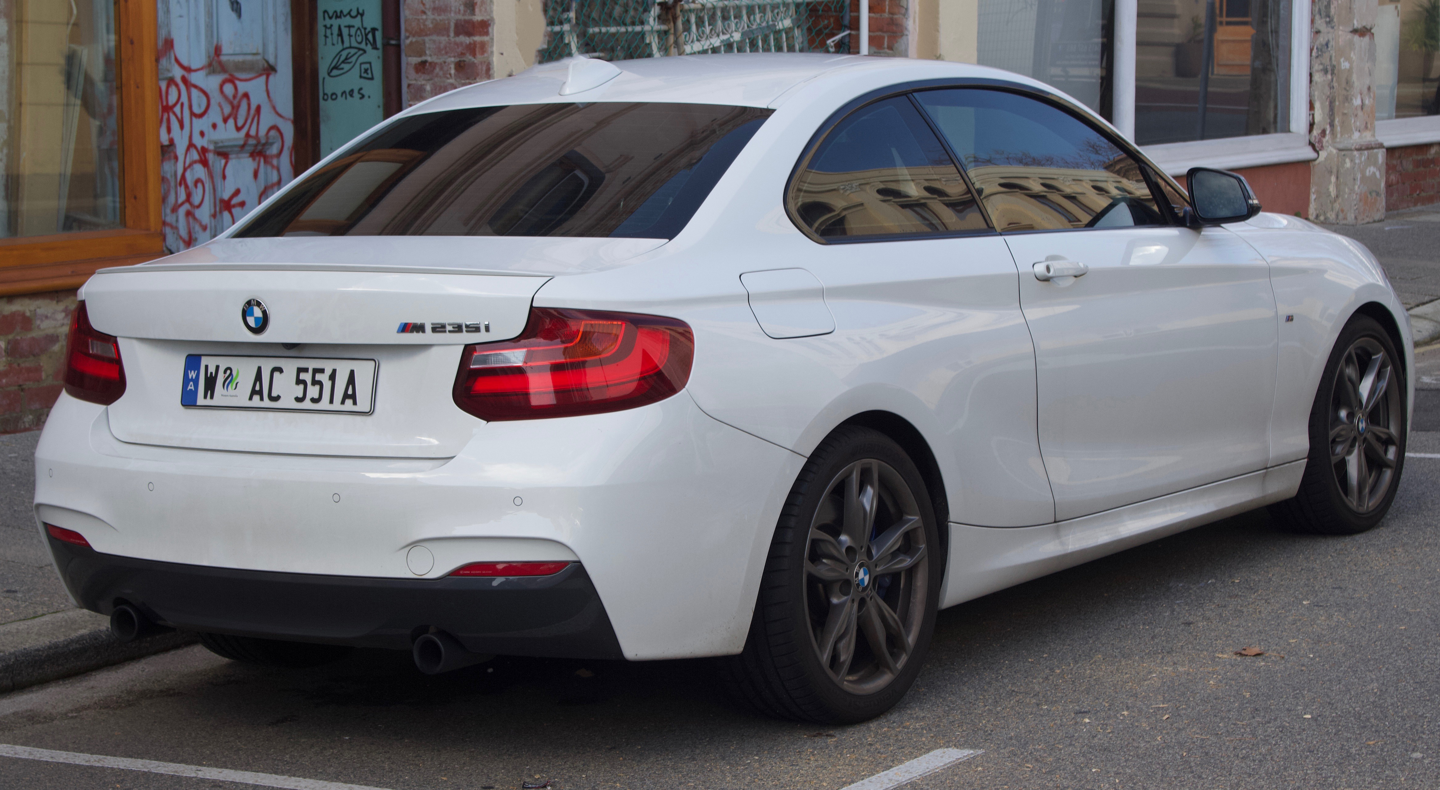 2014-2018 BMW M235i (F22) coupe. Photographed in Fremantle, Western Australia, Australia.